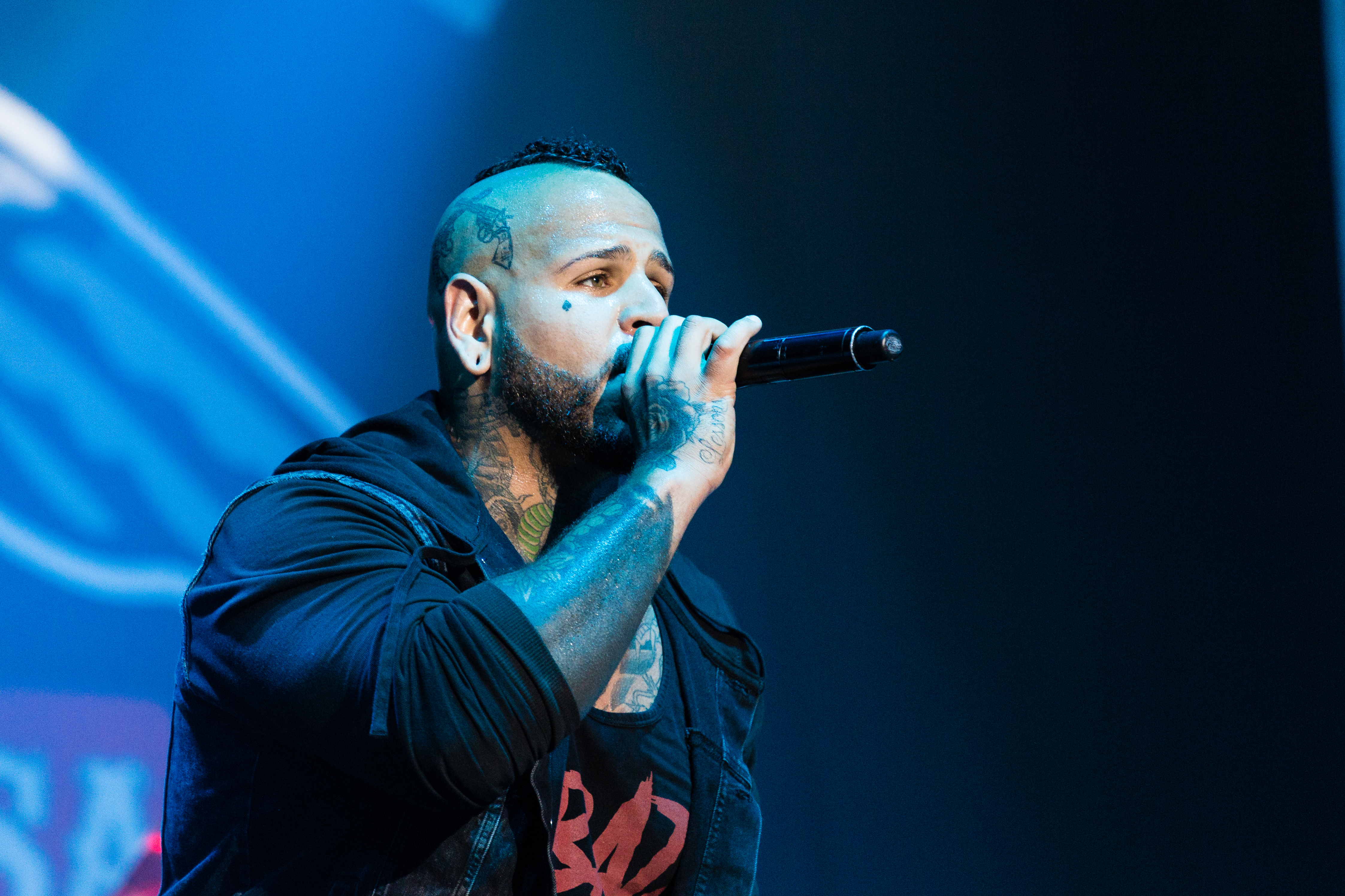 Nova Rock 2017 Tommy Vext with Five Finger Death Punch at the Nova Rock 2017